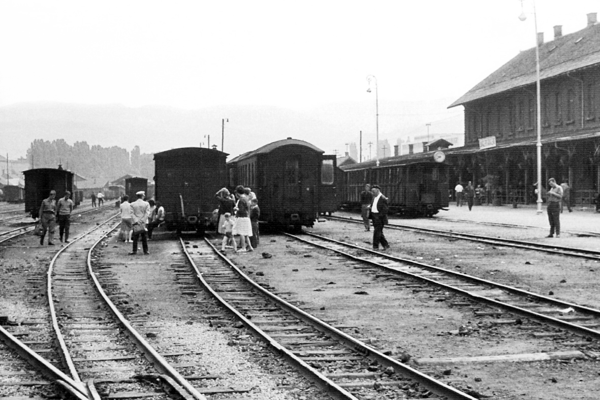 Narrow gauge train station in Sarajevo